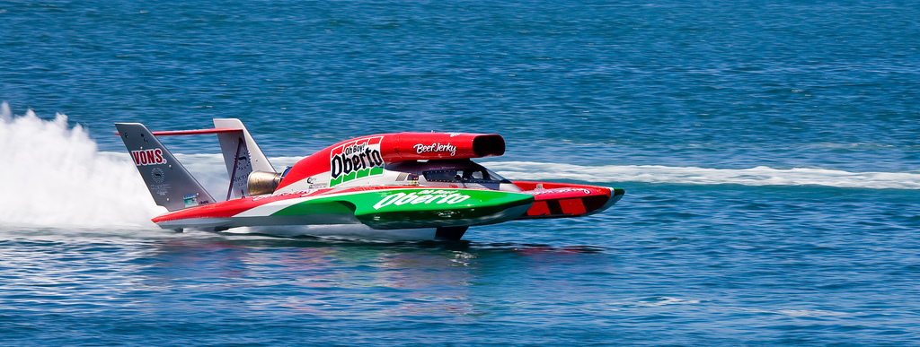 The Miss Madison unlimited hydroplane in 2007, winner in San Diego's Mission Bay.